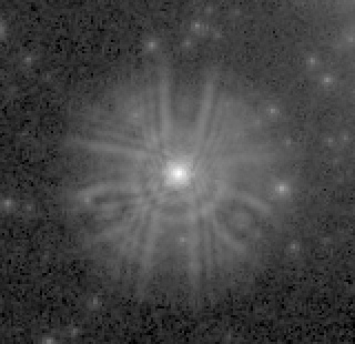 The star Melnick 34 as imaged by Hubble Space Telescope's first Wide Field and Planetary Camera (WFPC-1). The advantages of working in space above Earth's distorting atmosphere are immediately apparent. Atmospheric blurring is gone and many more stars are visible. However, the effects of the Hubble Telescope's spherical aberration also are apparent. In particular there is a four arc second diameter 'skirt' around the bright star which obscures the view of the sky in its vicinity.